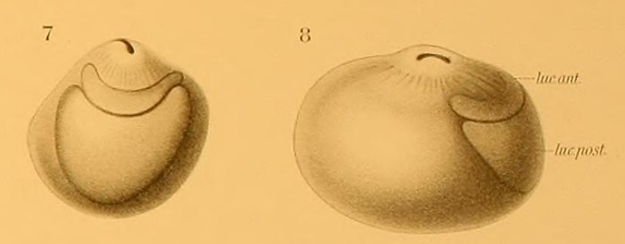 Right eye of Teuthowenia pellucida (Chun 1910). Note Chun called this species Desmoteuthis pellucida. Fig 7: Ventral view of right eye, showing both light organs. Fig 8: Broad side; lid fold contracted to form a slit. luc.ant = anterior luminous organ luc.post = posterior luminous organ